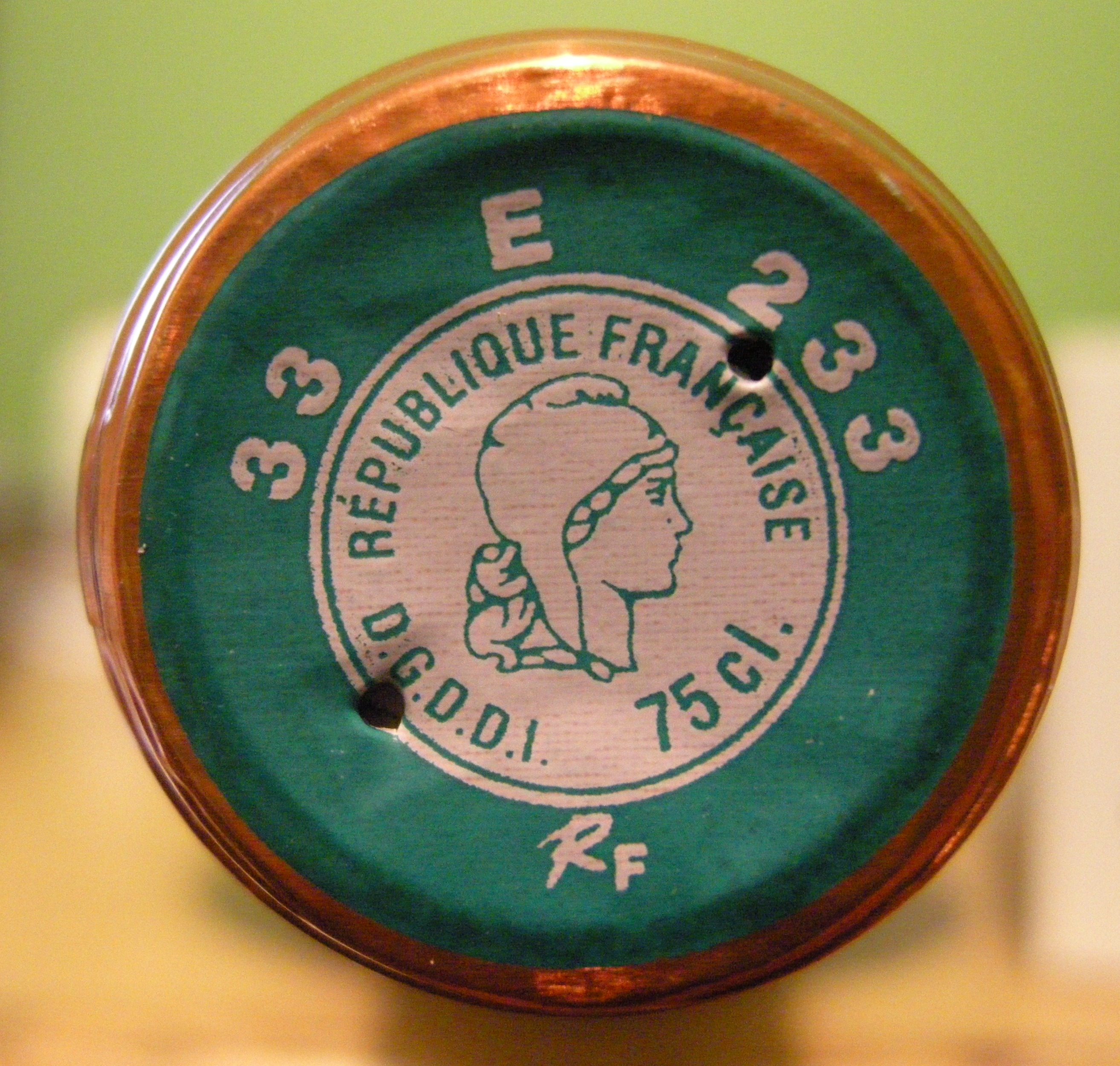 French fiscal stamp on top of bottle of wine